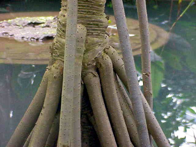 Species: Pandanus sp. Family: Pandanaceae Image No. 3